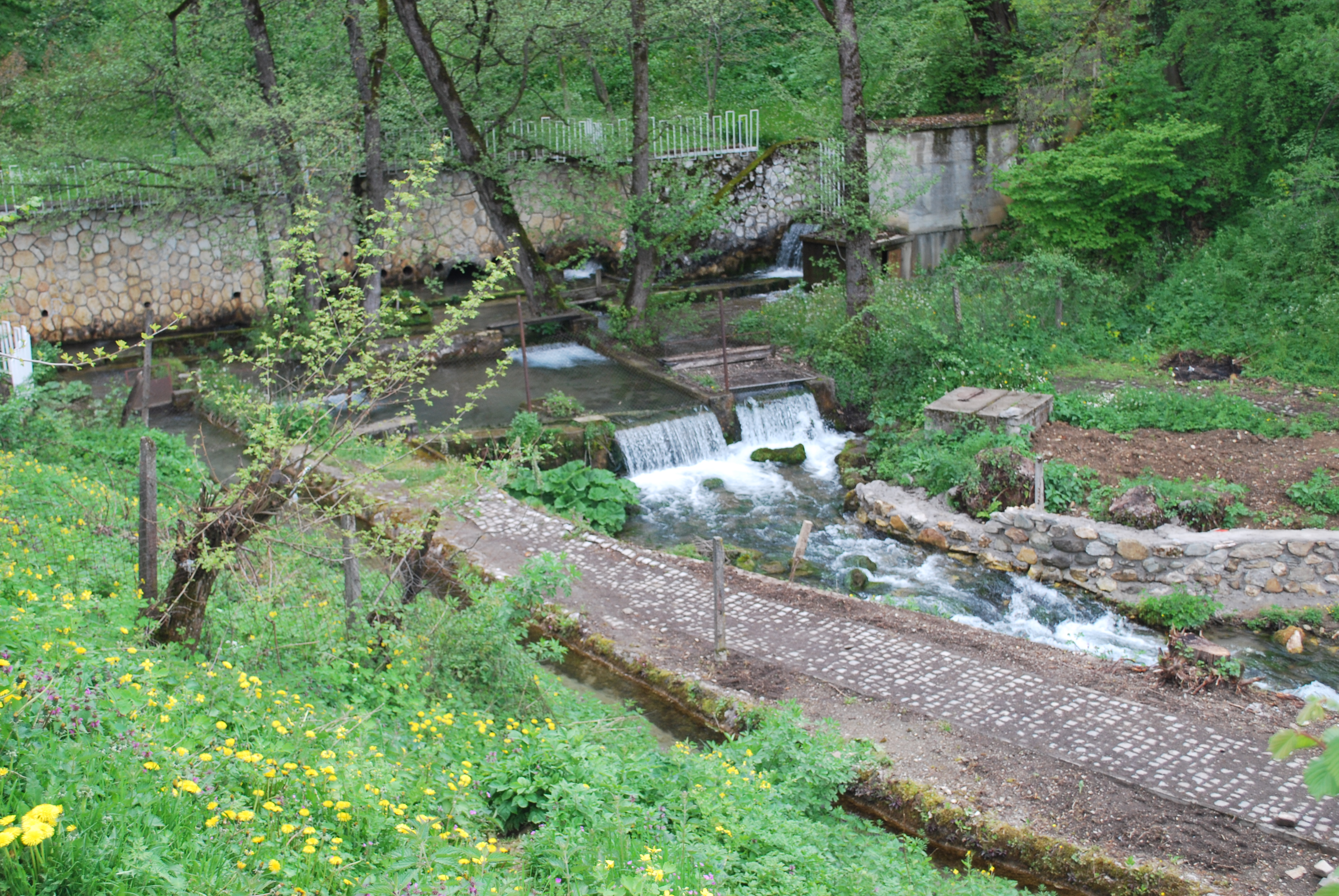 Vrutok, Macedonia